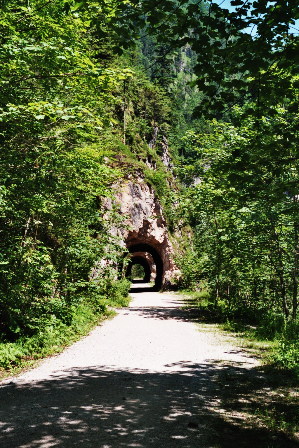 Street on the earlier Waldbahn Reichraming